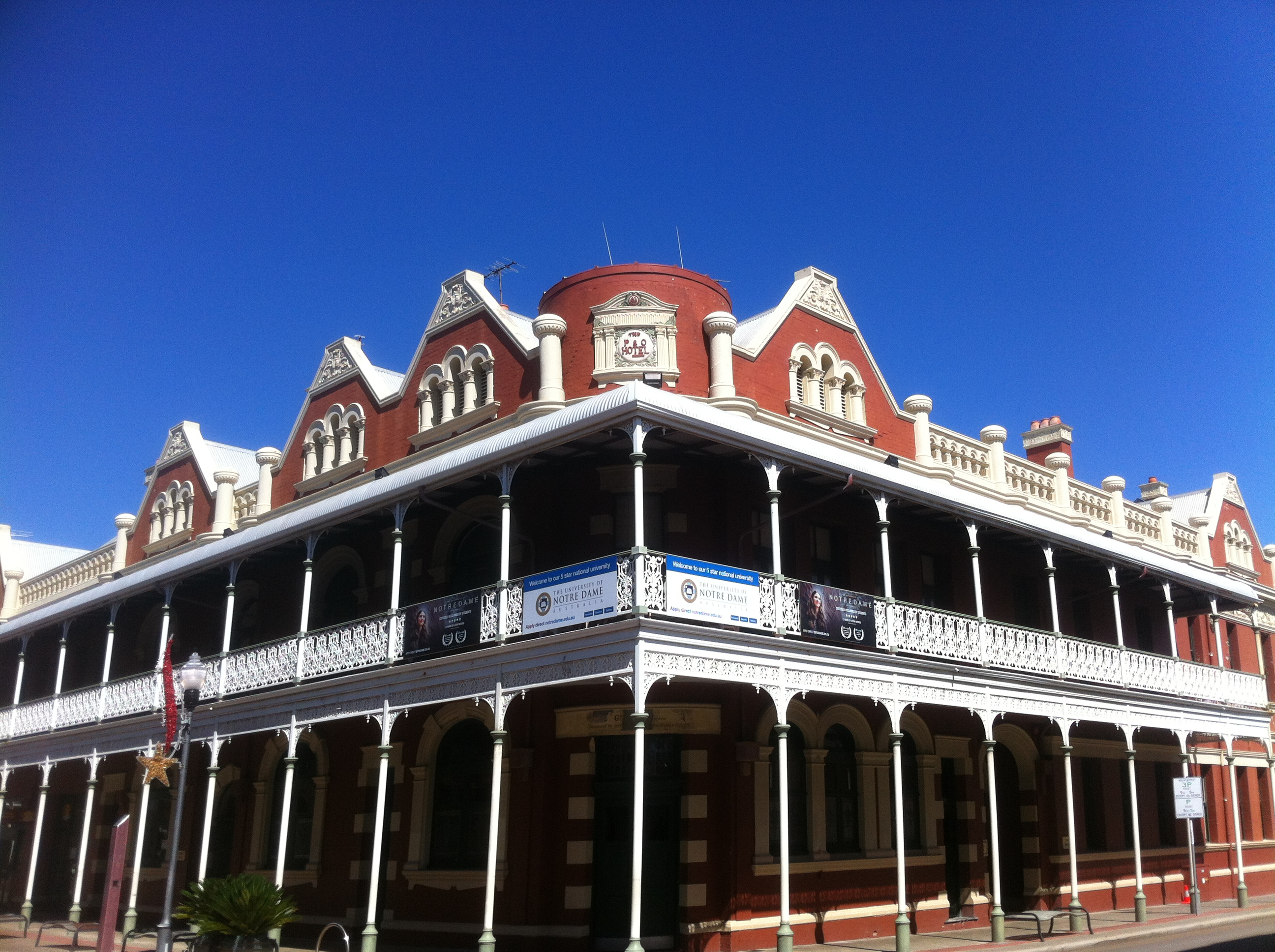 P&O Hotel Fremantle on the corner of High Street and Mouat Street